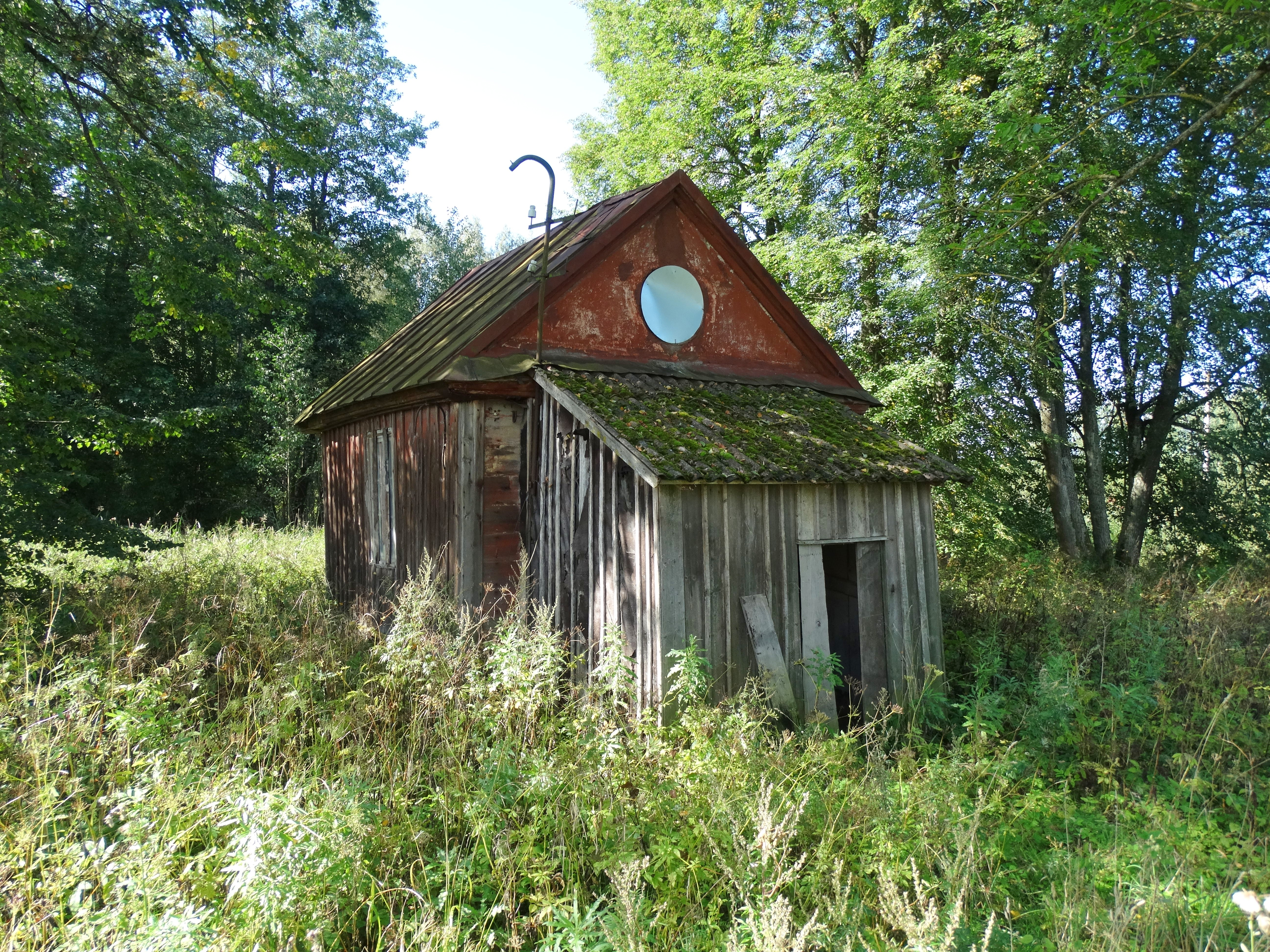 Former manor chapel, Pavirinčiai, Anykščiai district, Lithuania